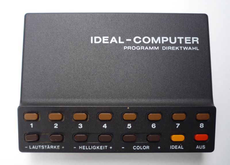 Television remote control of "ITT Schaub Lorenz", 1976